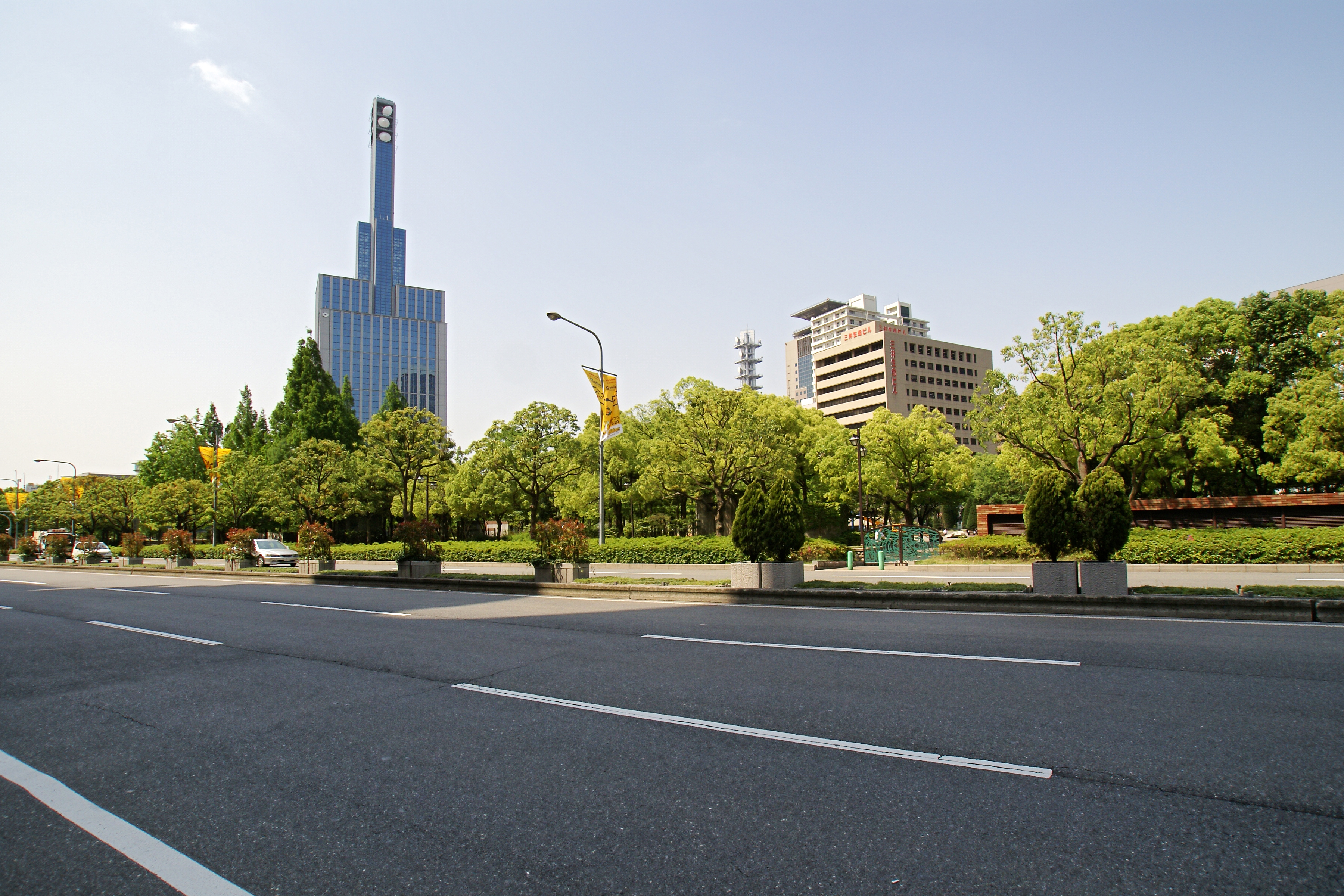 Higashi-yuenchi, Kobe, Hyogo prefecture, Japan